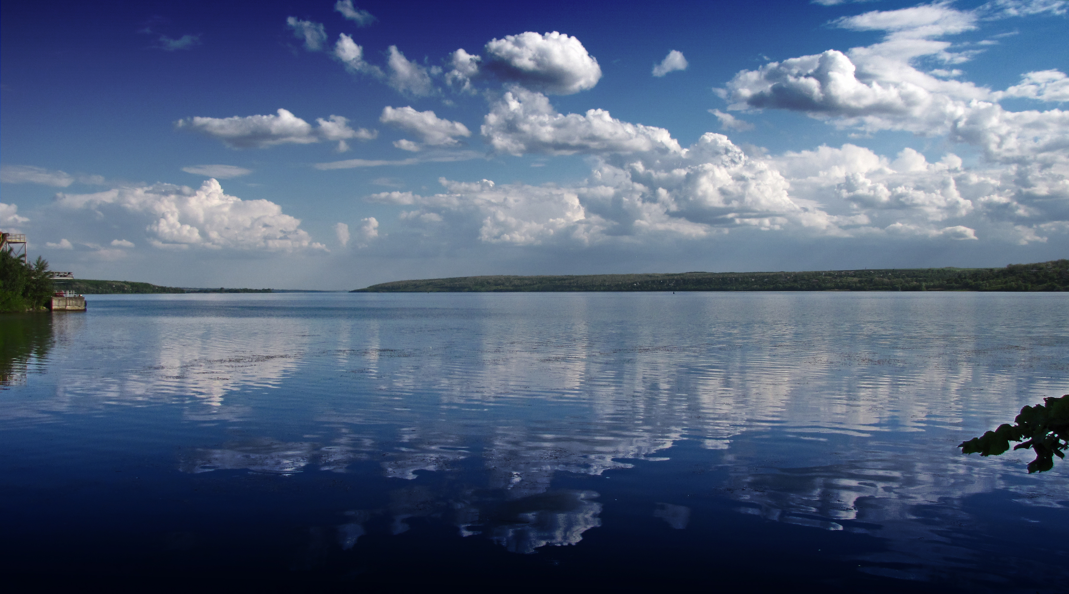 The Dnieper River in Dnipropetrovsk Oblast, Ukraine